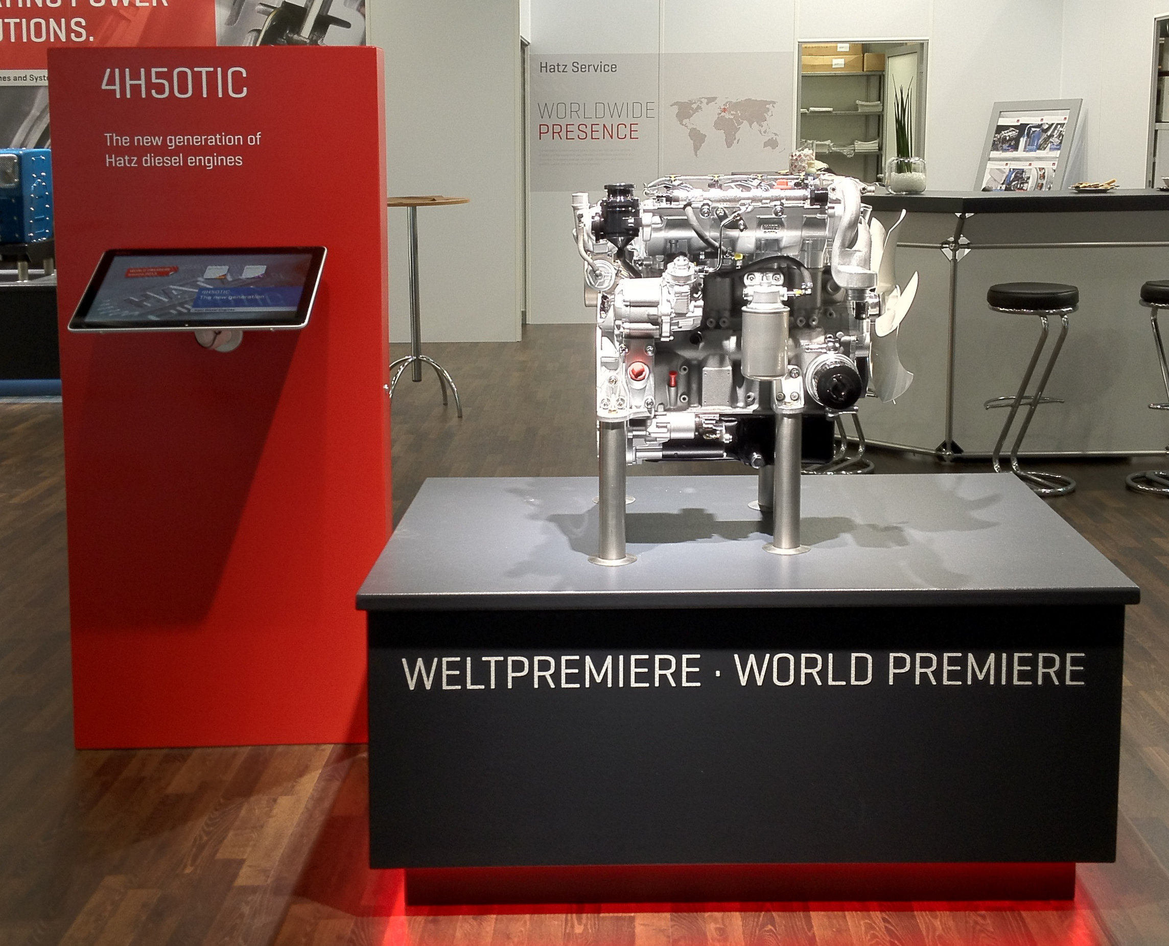 Hatz 4H50TIC diesel engine for industrial use. Engine had world premiere at the bauma 2013 in Munich.